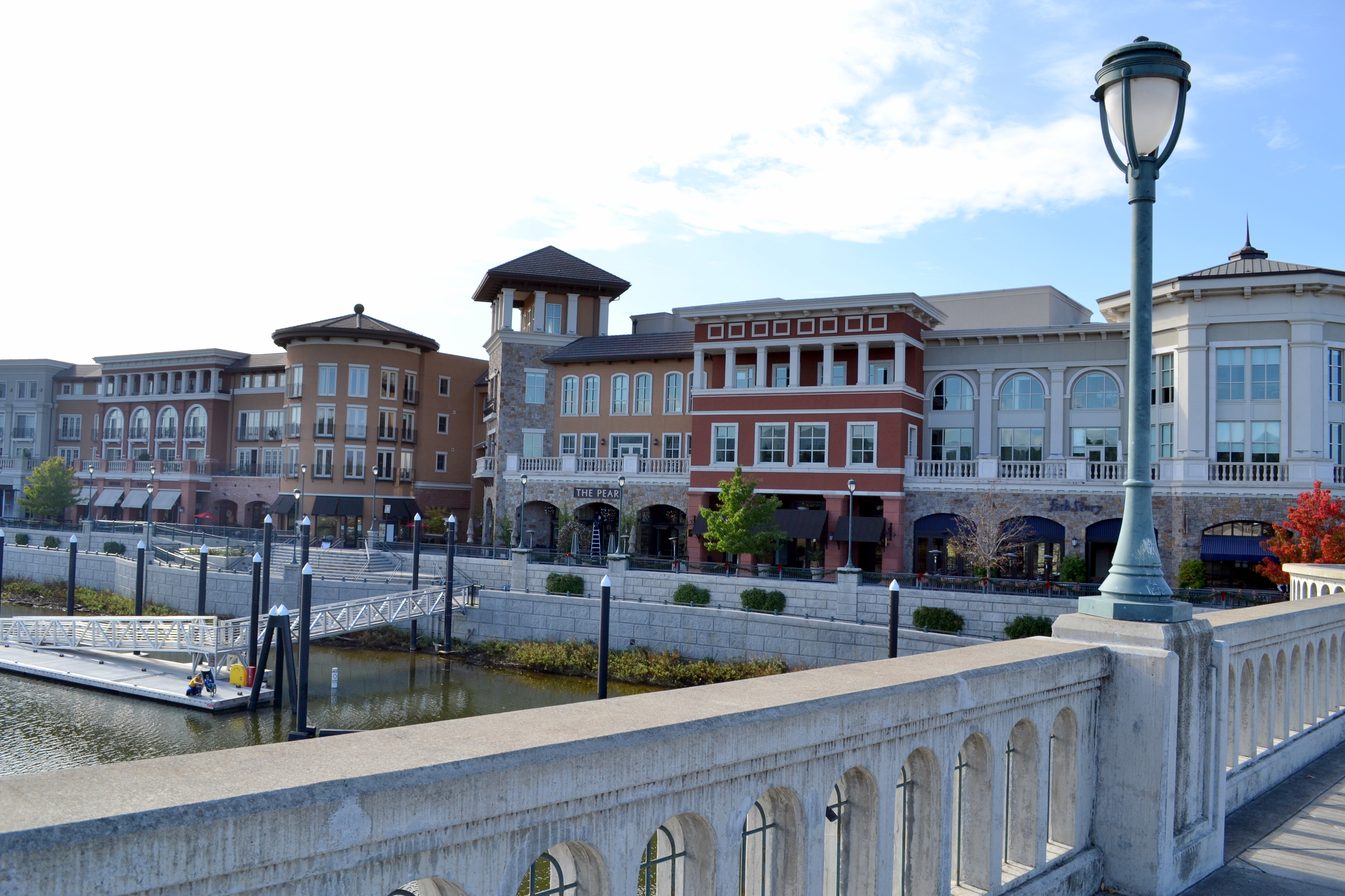 City of Napa by the Napa River